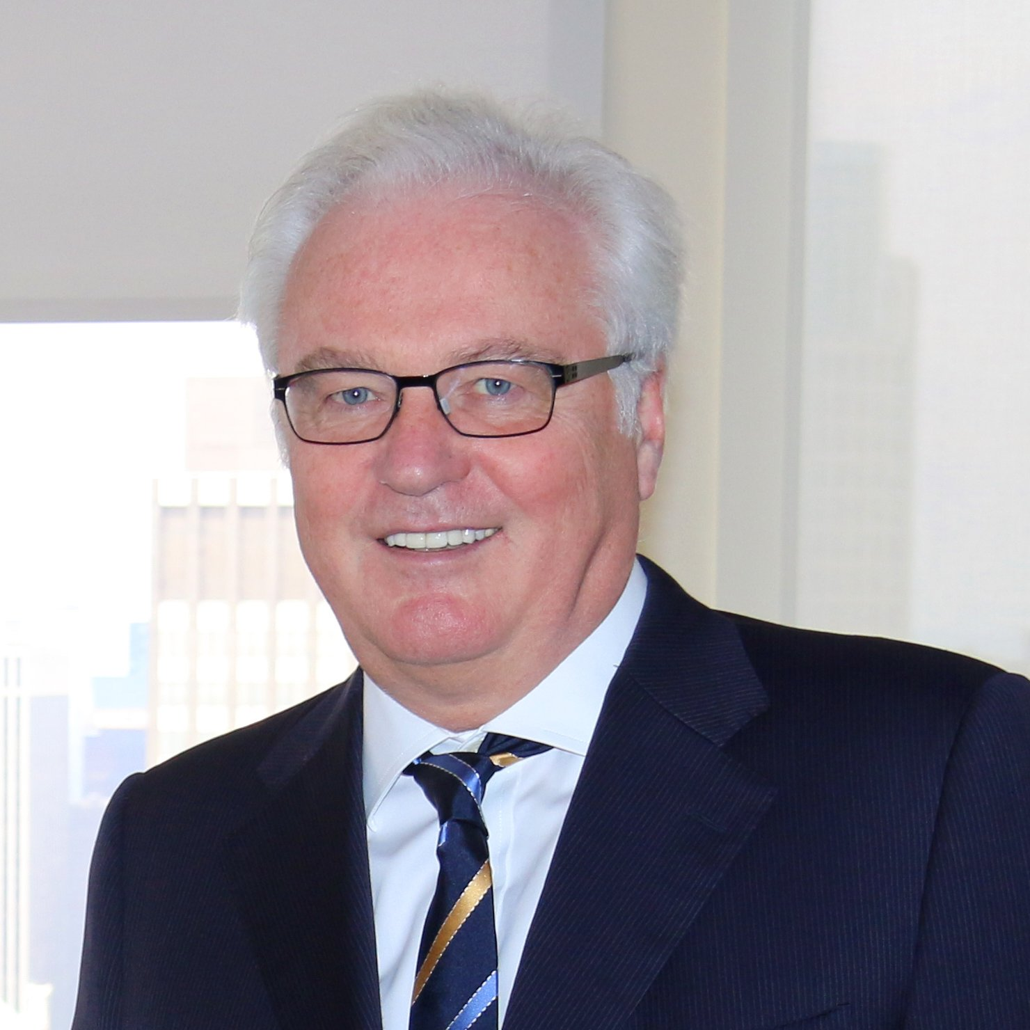 Vitaly I. Churkin, PR of the Russian Federation to the UN. New York City